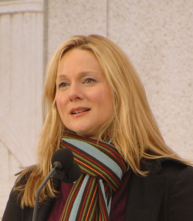 Laura Linney at the Lincoln Memorial on the National Mall in Washington, D.C., Jan. 18, 2009, during the inaugural opening ceremonies. Cropped.